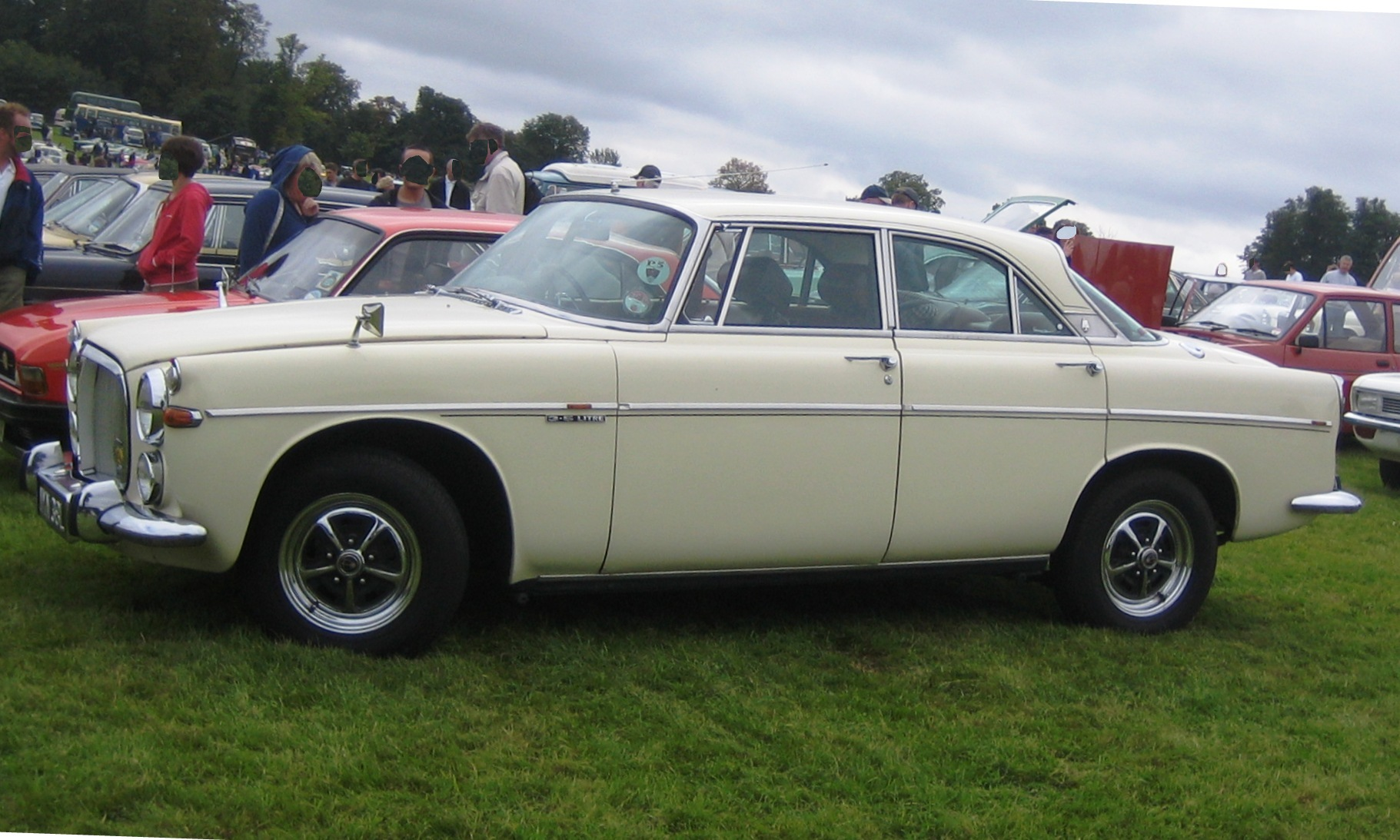 Rover 3.5 litre 'Coupe' at Classic Car Show in Hertfordshire